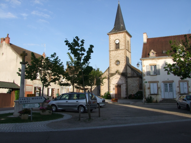 Center of Saint Bérain sur Dheune, Saone et Loire, France